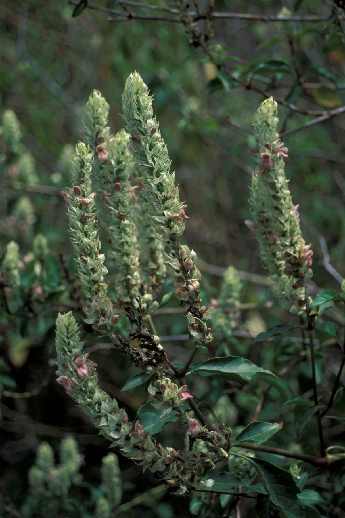 Justicia betonica (flowers). Location: Maui, Enchanting Floral Gardens of Kula